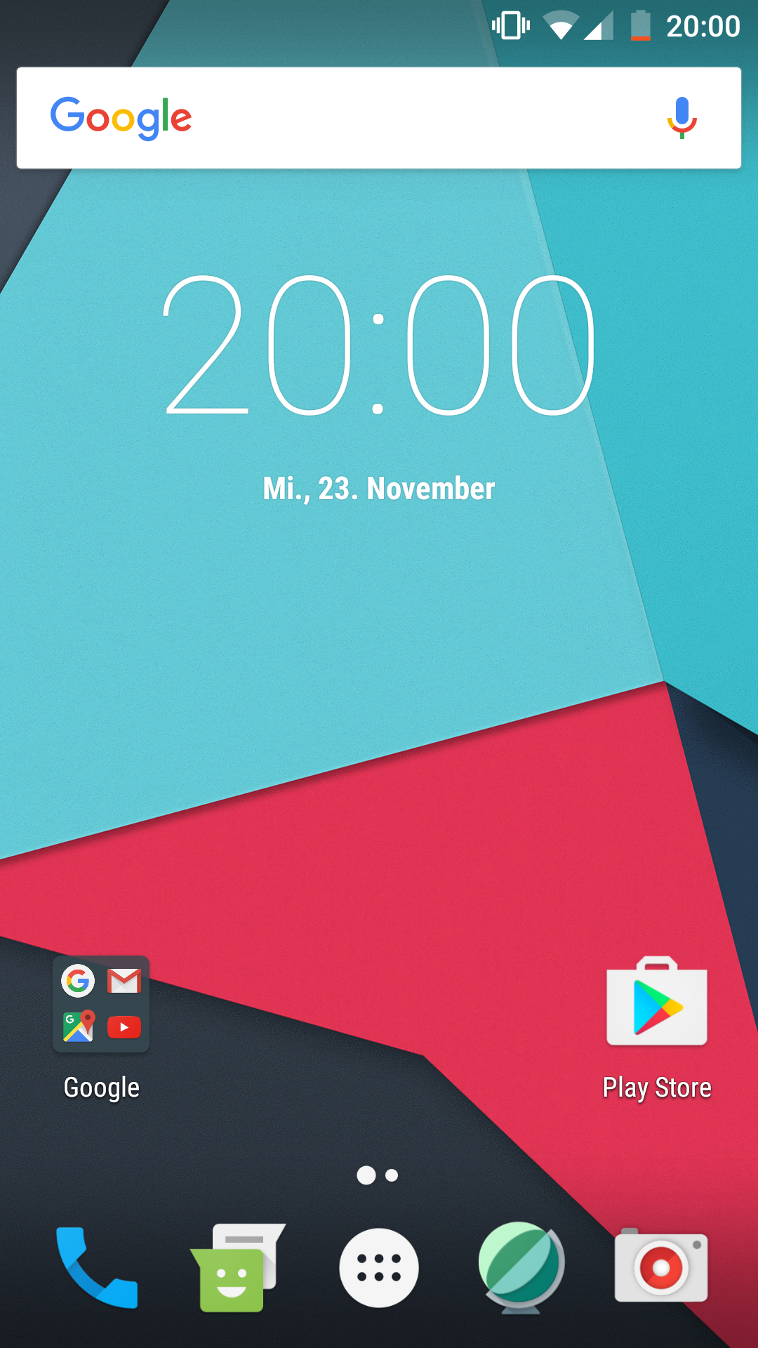 Screenshot of the CyanogenMod 14.1 nightly build from 23th November 2016 on a OnePlus One